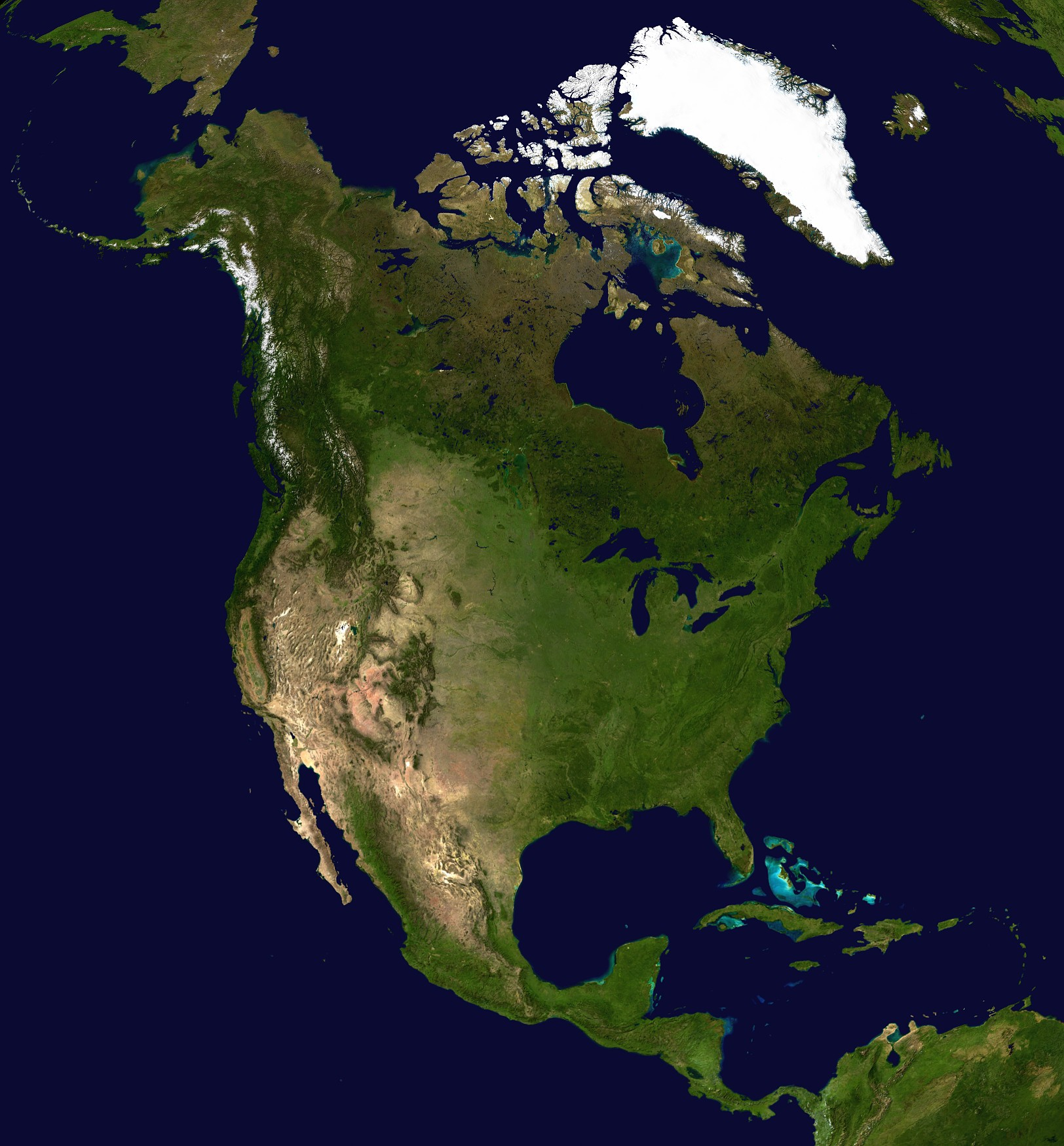 A composed satellite photograph of North America in orthographic projection. The observer is centered at (40° N, 95° W), at Moon distance above the Earth.